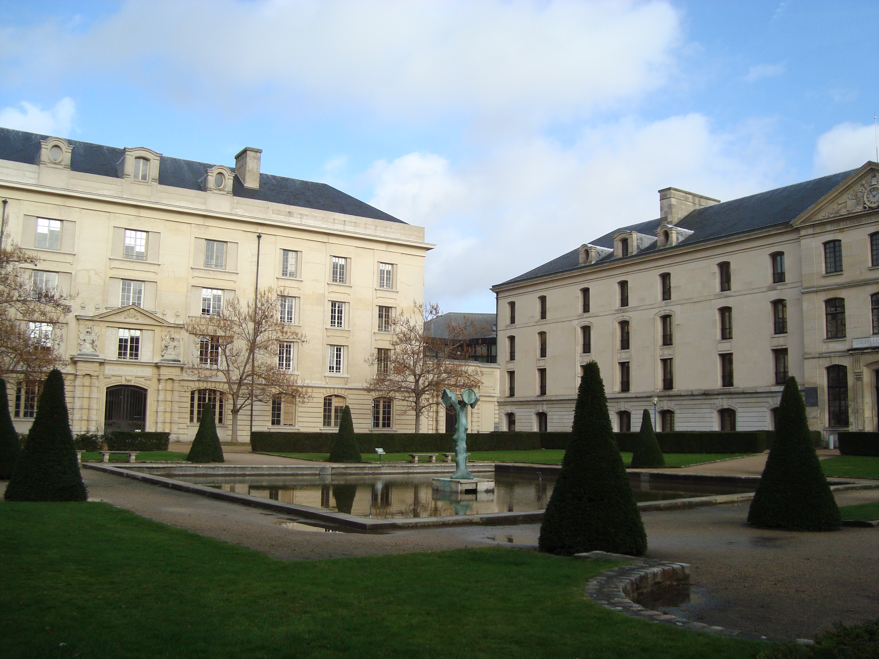 Jardin Carré in the space of the Ministère de l'enseignement supérieur et de la recherche, rue Descartes, in the 5th arrondissement of Paris